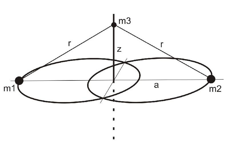 Konfiguration des Sitnikov Problems/configuration of the Sitnikov problem